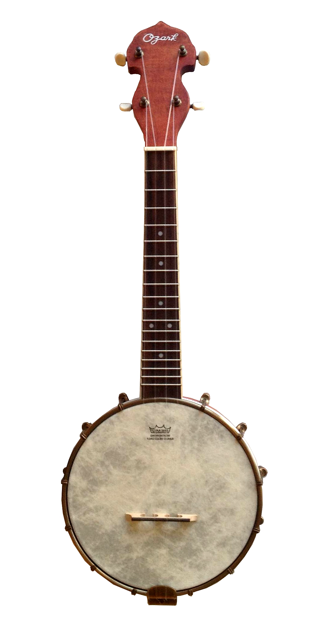 Banjo Ukulule (aka Banjolele) made by Ozark, model 2035